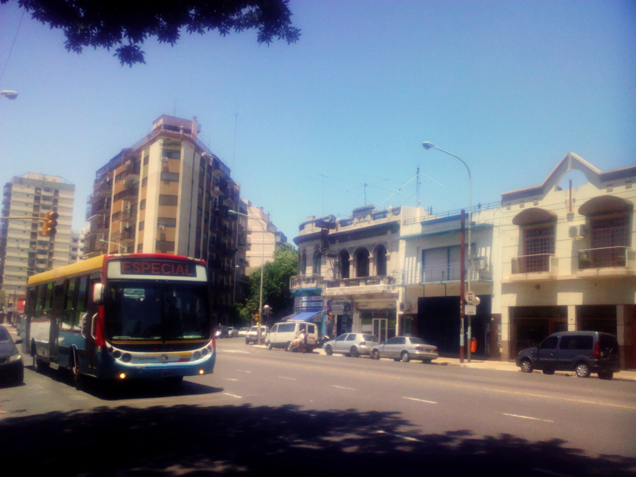 Avenida Rivadavia at Liniers, Buenos Aires, Argentina